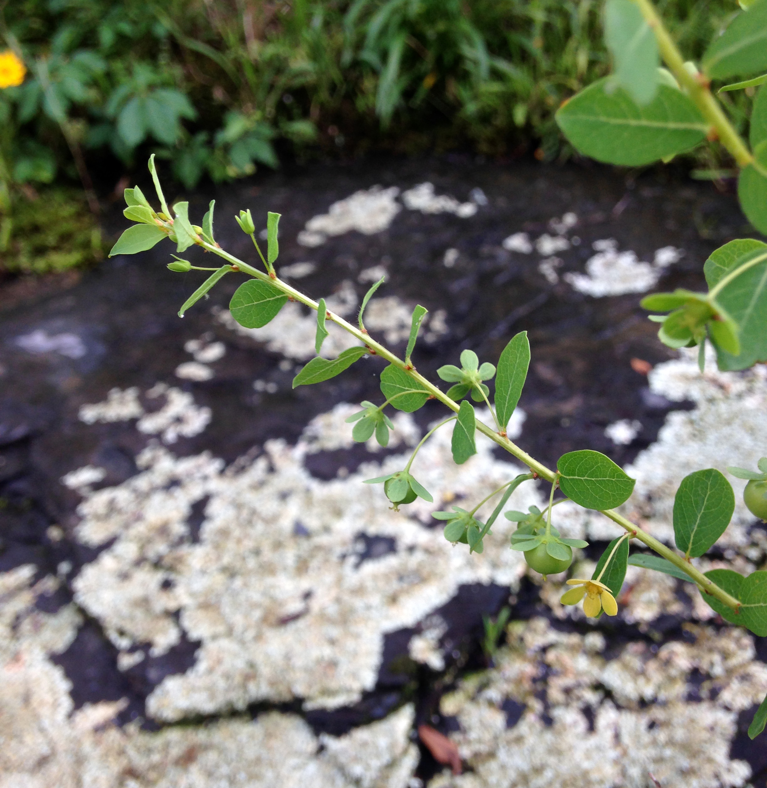 Phyllanthopsis phyllanthoides, riparian thickets and openings where Highway 278 crosses Baker Creek, Howard County, Arkansas.